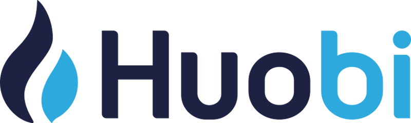 Huobi Logo